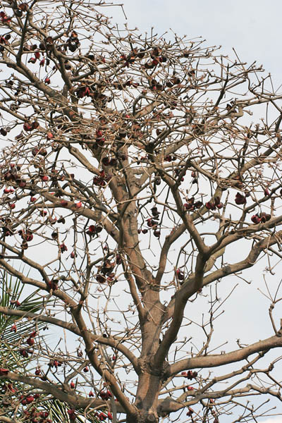 Wild Almond Sterculia foetida in Kolkata, West Bengal, India.